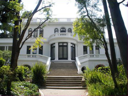 External view from The Beaux-Arts style (1907) Fenyes Mansion at Pasadena Museum of History.